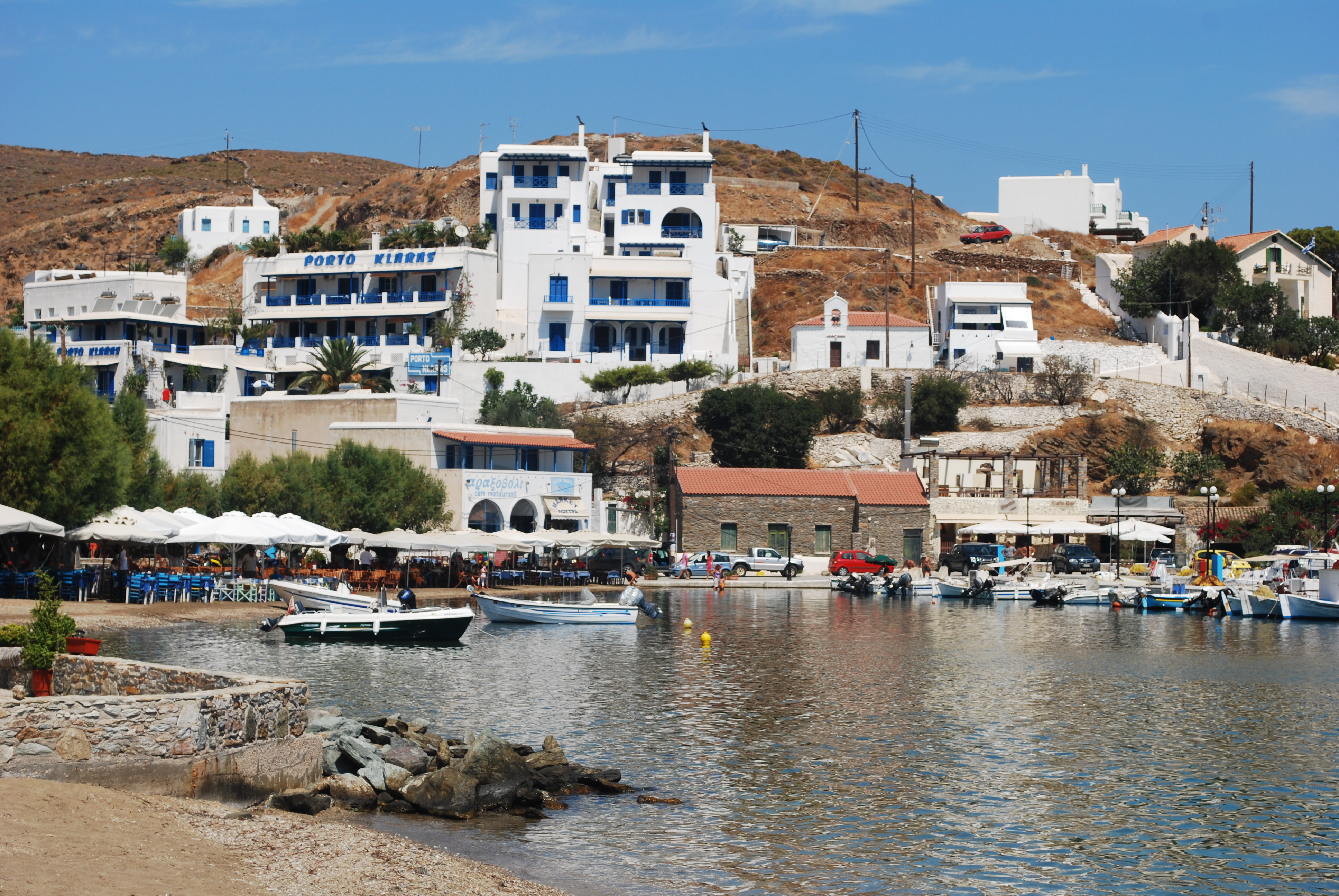 Loutra village. Kythnos (Greece)